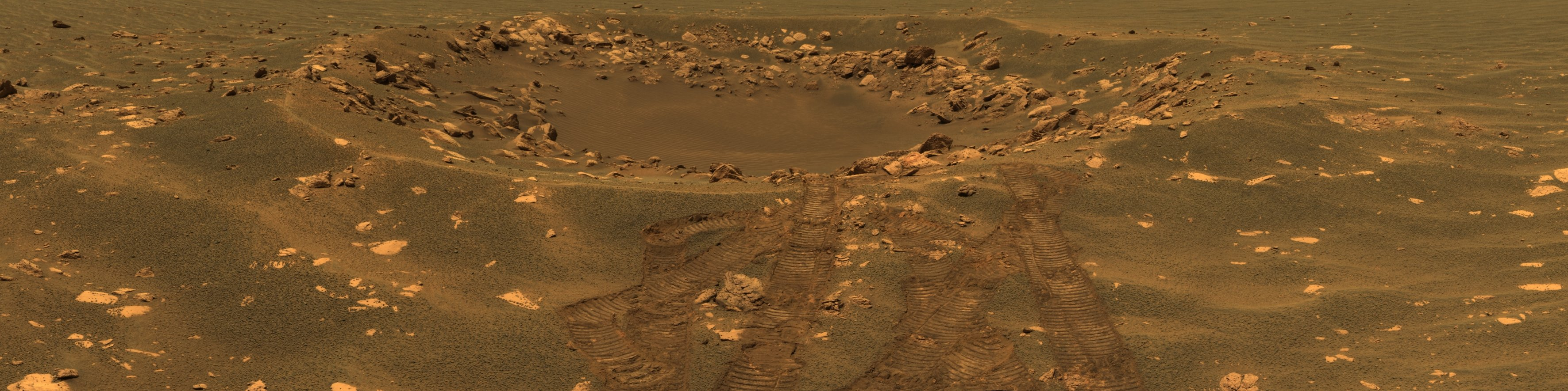 Fram crater in Meridiani Planum, Mars. 'Fram' in Color This view in approximately true color reveals details in an impact crater informally named "Fram" in the Meridian Planum region of Mars. The picture is a mosaic of frames taken by the panoramic camera on NASA's Mars Exploration Rover Opportunity during the rover's 88th martian day on Mars, on April 23, 2004. The crater spans about 8 meters (26 feet) in diameter. Opportunity paused beside it while traveling from the rover's landing site toward a larger crater farther east. This view combines images taken using three of the camera's filters for different wavelengths of light: 750 nanometers, 530 nanometers and 430 nanometers.